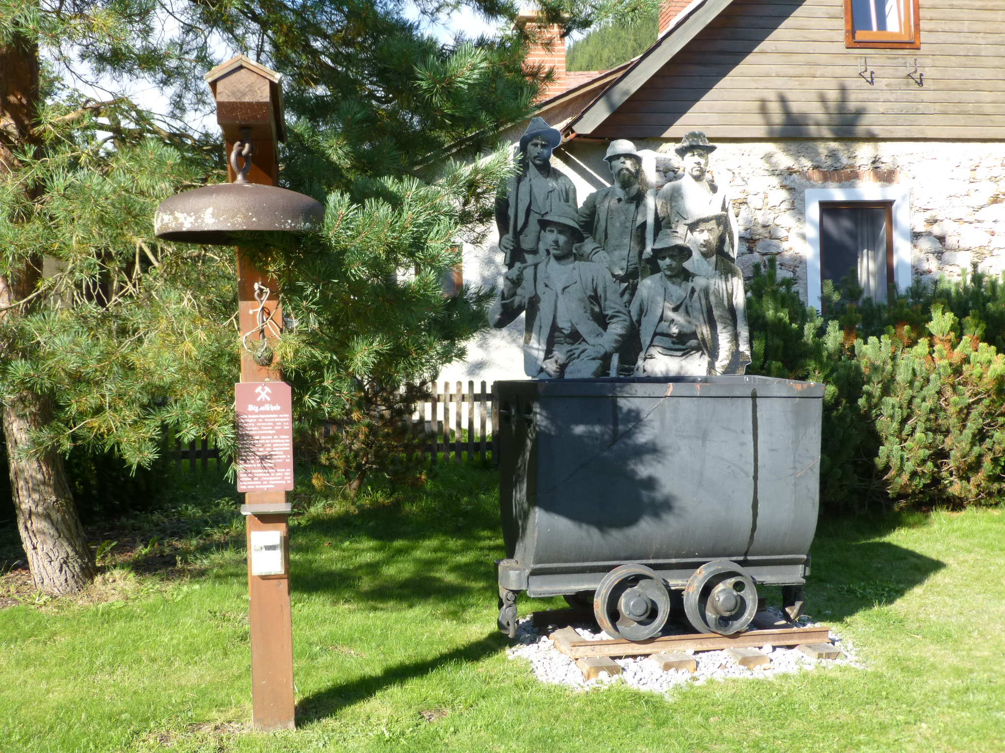 The old mining activity memory monument in Altenberg an der Rax, Styria, Austria. The mines were closed in 1893. The alarm at left.